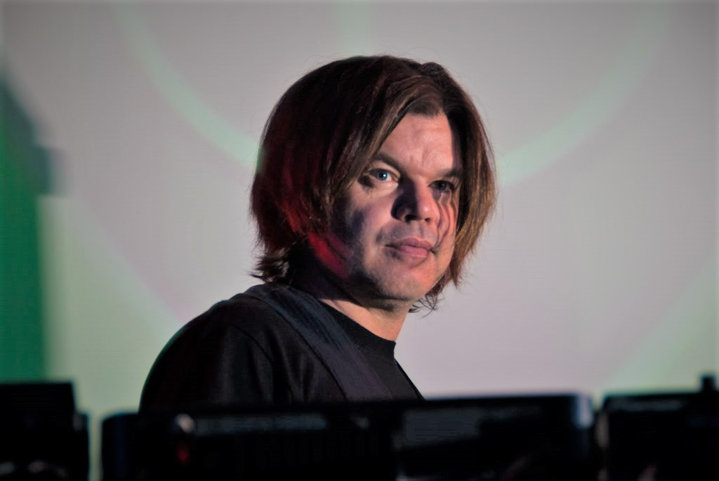 DJ Paul Oakenfold at Salt Lake City, In the Venue presented by V2 Events.